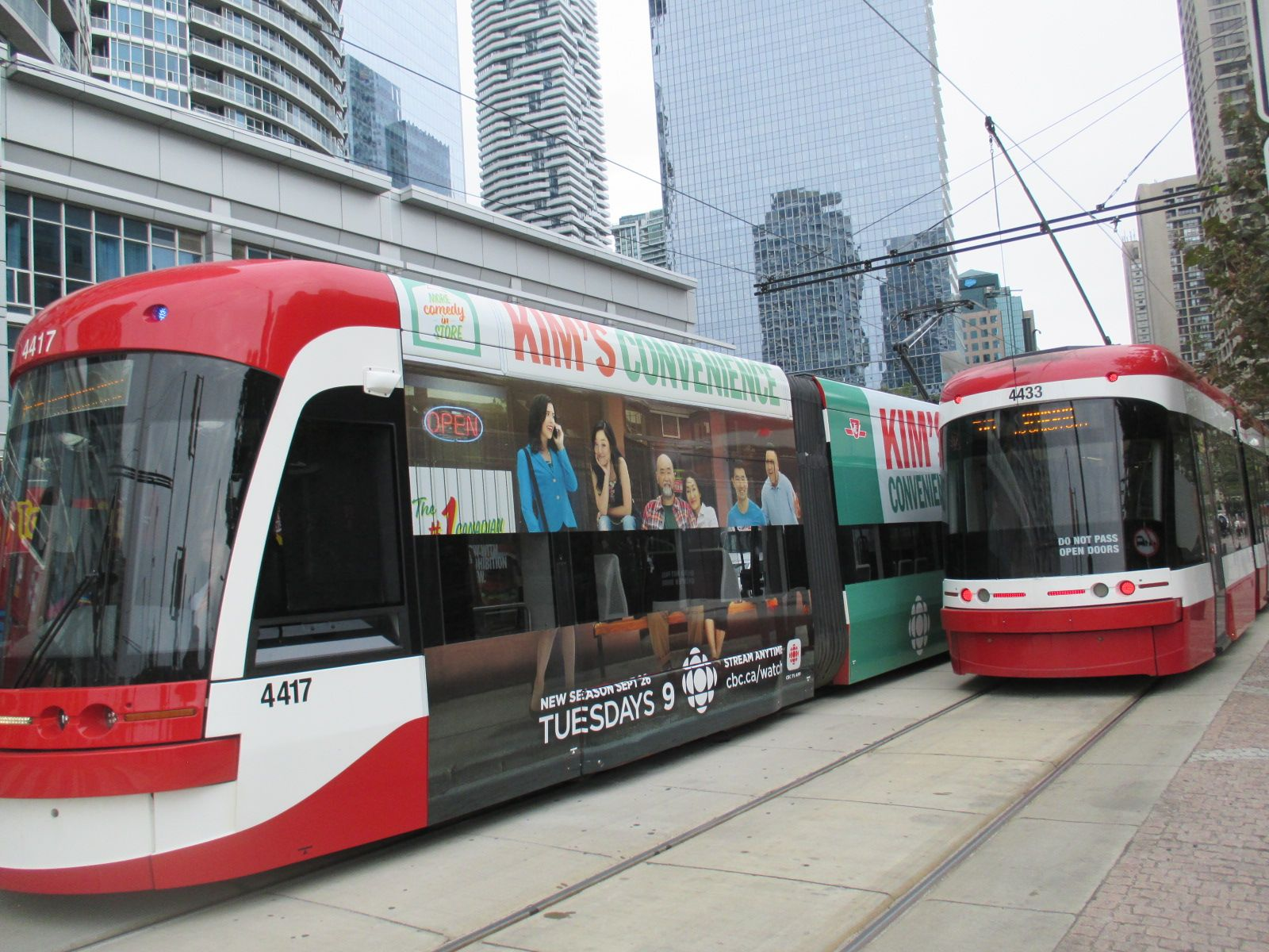 Pantograph(left) and trolley pole in use on Queens Quay West, Toronto. Streetcar 4417 (left) is on route 509 using a pantograph while streetcar 4433 is on route 510 using a trolley pole.